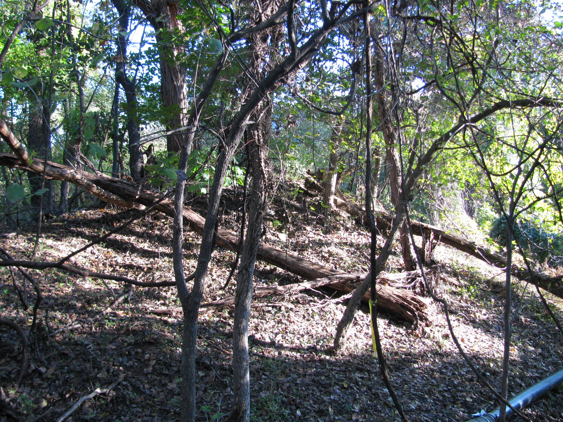 Potomac Palisades, at the corner of Foxhall Road NW and MacArthur Boulevard NW, Washington, D.C.